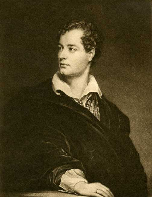 Frontispiece of Byron for Byron by Ethel Mayne, 1913.